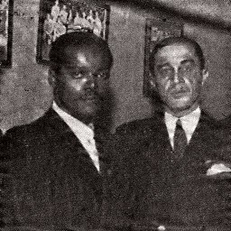 Leônidas da Silva and Arthur Friedenreich, Brazilian footballers.